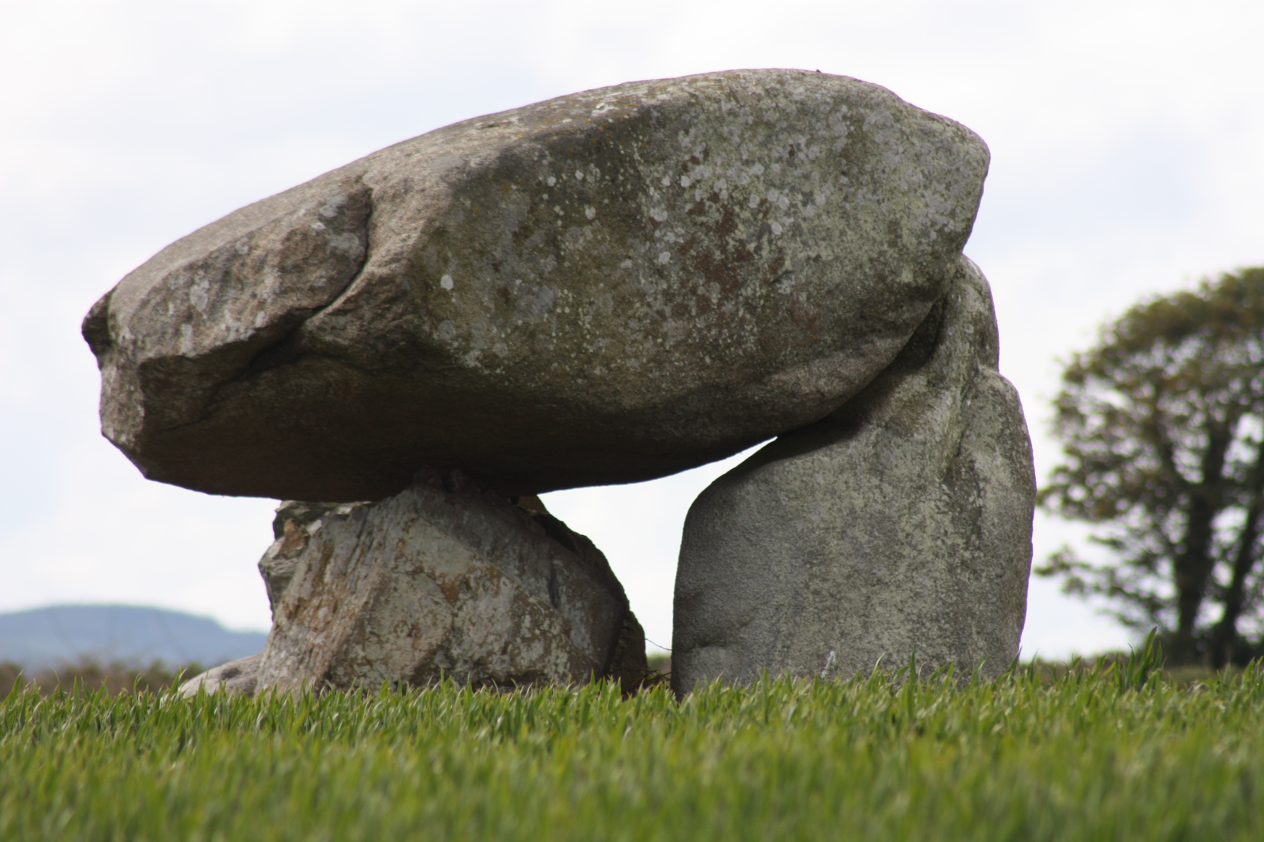 Slidderyford Dolmen (also known as Wateresk Dolmen), Old Road, Dundrum, County Down, Northern Ireland, May 2011